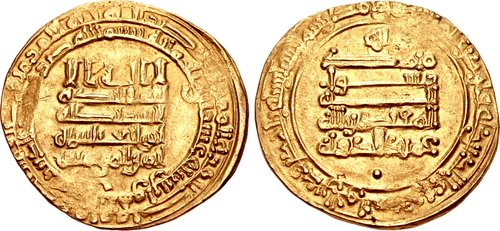 ISLAMIC, 'Abbasid Caliphate. temp. Al-Muqtadir. Third reign, AH 317-320 / AD 929-932. AV Dinar (25mm, 6.01 g, 5h). Citing Abu’l Abbas as heir and ‘Amid al-Dawla as vizier. al-Ahwaz mint. Dated AH 320 (AD 932/3). Kalima in four lines across field; Quran 30:4-5 in outer margin, mint formula and AH date in inner margin / Continuation of Kalima across field, “li-’illah” above, names of Abu’l Abbas and ‘Amid al-Dawla below; “Second Symbol” (Quran 9:33) in outer margin. Album 248. VF, some light marks.